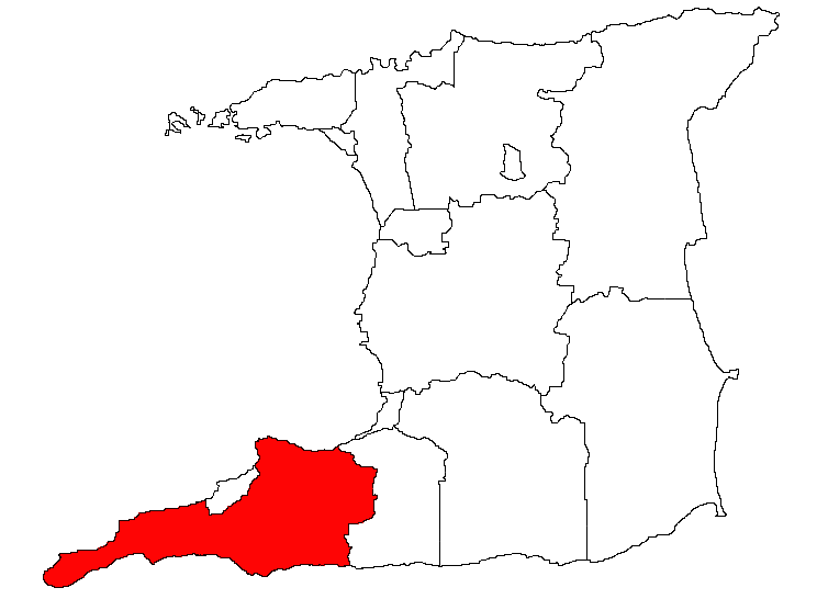 Location map of the Siparia Regional Corporation, Trinidad and Tobago